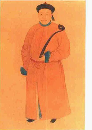 Portrait of Fu heng (傅 恆), a minister during Emperor Qianlong's reign